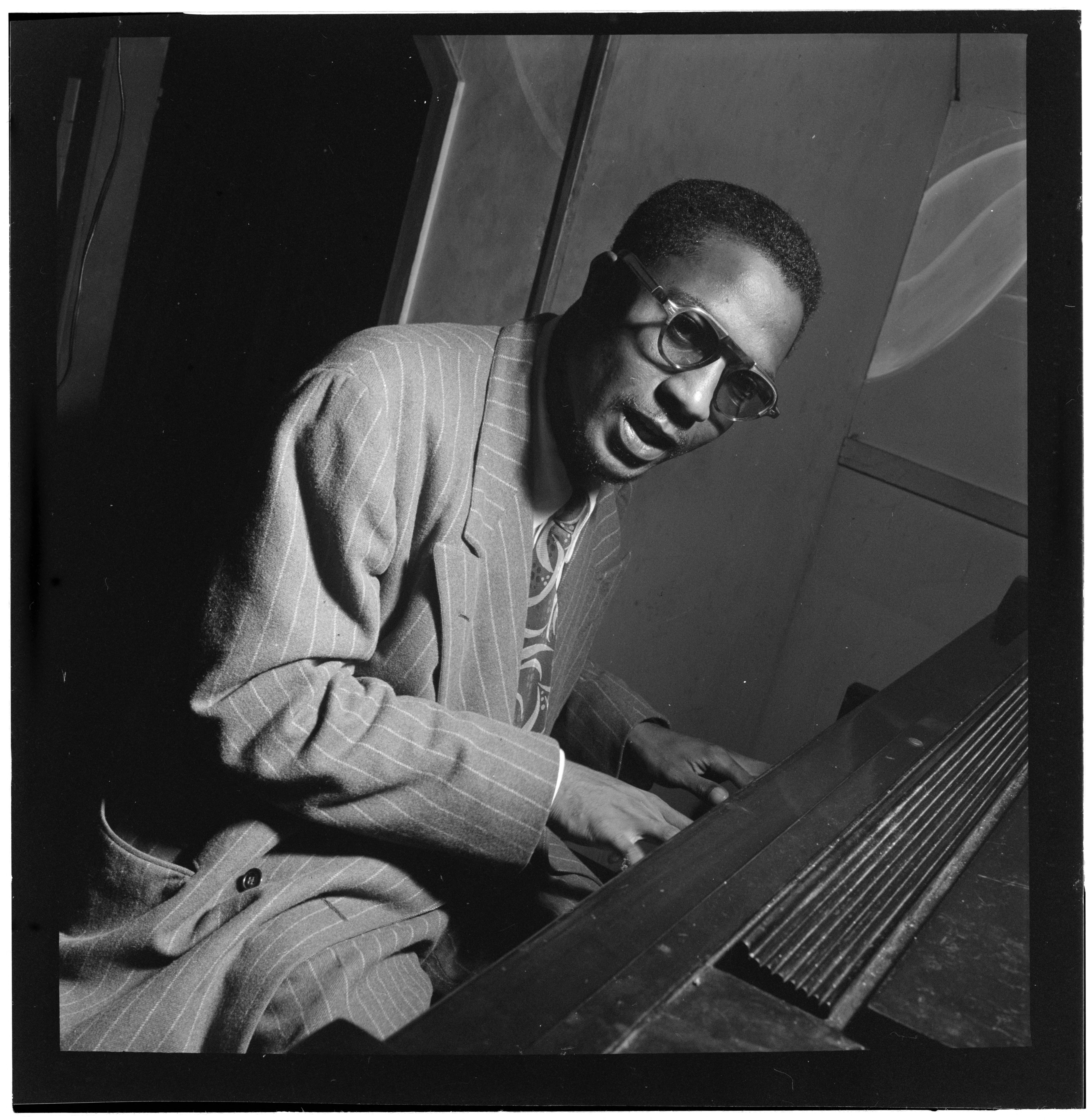 Gottlieb, William P., 1917-, photographer. [Portrait of Thelonious Monk, Minton's Playhouse, New York, N.Y., ca. Sept. 1947] 1 negative : b&w ; 2 1/4 x 2 1/4 in. Notes: Gottlieb Collection Assignment No. 231 Reference print available in Music Division, Library of Congress. Purchase William P. Gottlieb Forms part of: William P. Gottlieb Collection (Library of Congress). Subjects: Monk, Thelonious Jazz musicians--1940-1950. Pianists--1940-1950. Composers--1940-1950. Minton's Playhouse Format: Portrait photographs--1940-1950. Film negatives--1940-1950. Rights Info: Mr. Gottlieb has dedicated these works to the public domain, but rights of privacy and publicity may apply. Repository: (negative) Library of Congress, Prints & Photographs Division, Washington D.C. 20540 USA, (reference print) Library of Congress, Music Division, Washington D.C. 20540 USA, Part Of: William P. Gottlieb Collection (DLC) 99-401005 General information about the Gottlieb Collection is available at Persistent URL: Call Number: LC-GLB23- 0622 This work is from the William P. Gottlieb collection at the Library of Congress. Rights and restrictions.In accordance with the wishes of William Gottlieb, the photographs in this collection entered into the public domain on February 16, 2010.